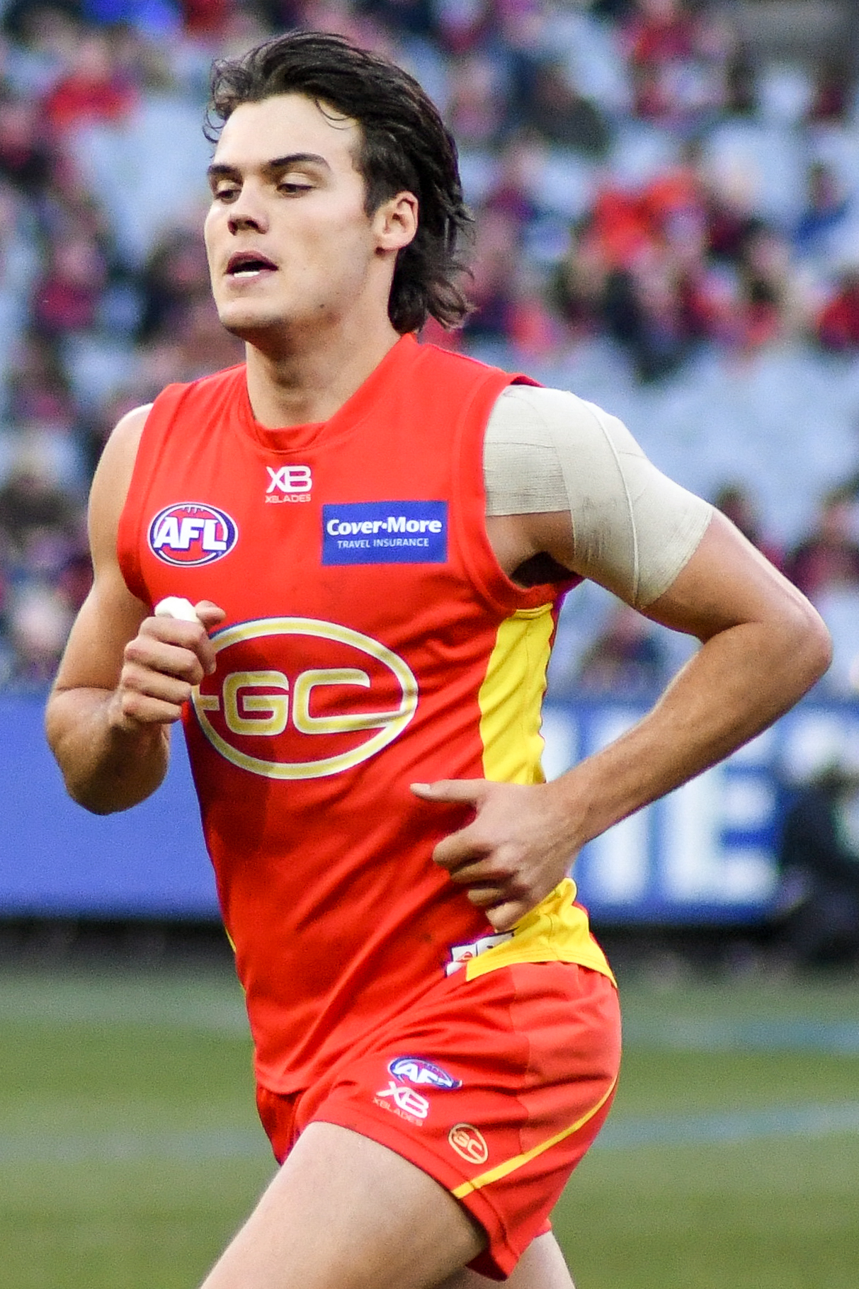 Jack Bowes of Gold Coast during the 2018 AFL round 20 match between Melbourne and Gold Coast at the Melbourne Cricket Ground on Sunday, 5 August 2018 in Melbourne, Victoria.